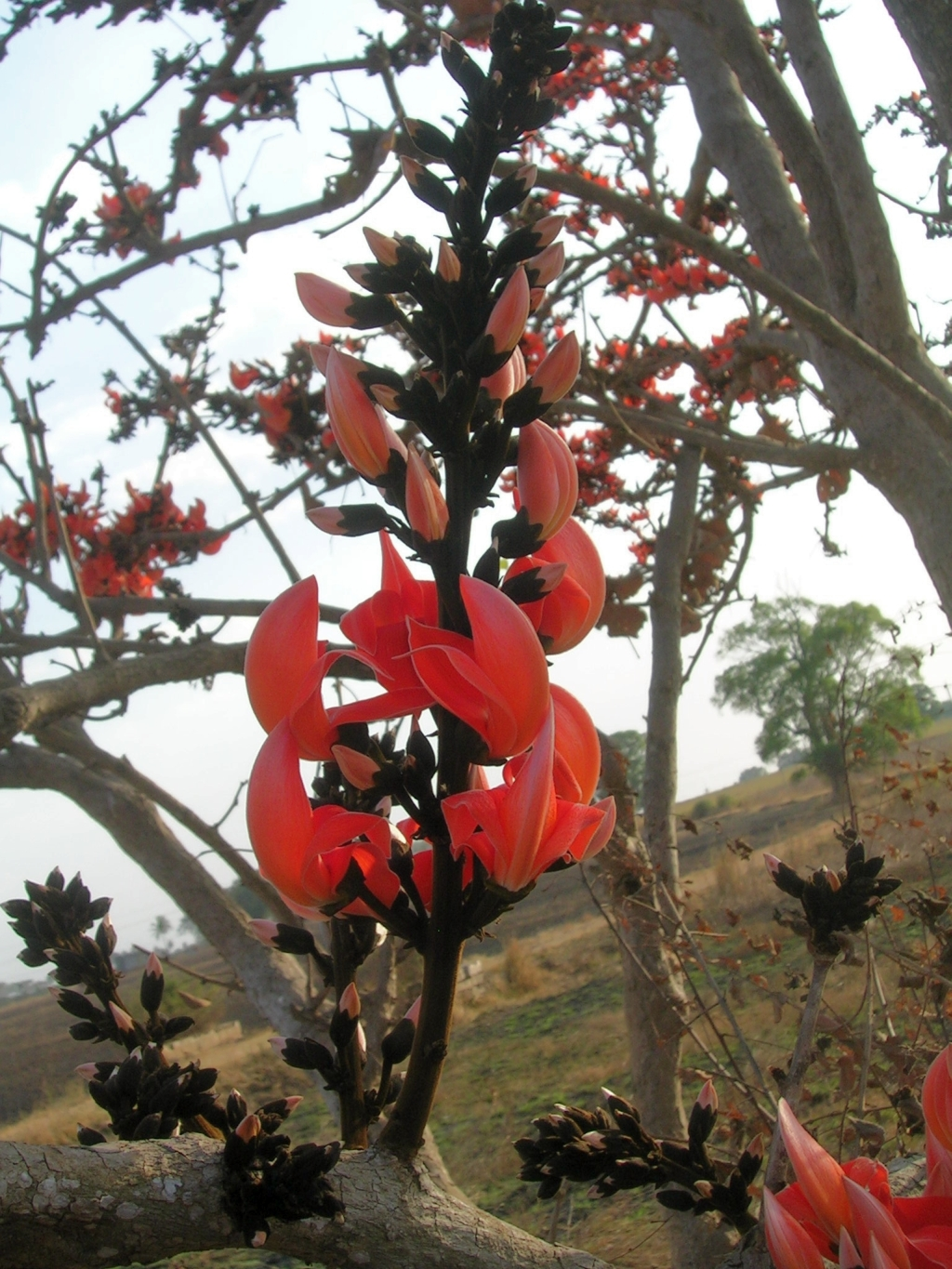 Butea sp. flowers, Hessarghatta, Bangalore